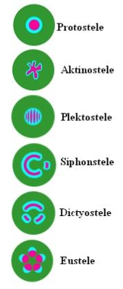 Stelar arrangements among plants. Diagram created by B. R. Speer on 20 Nov 2005 using Photoshop Elements.